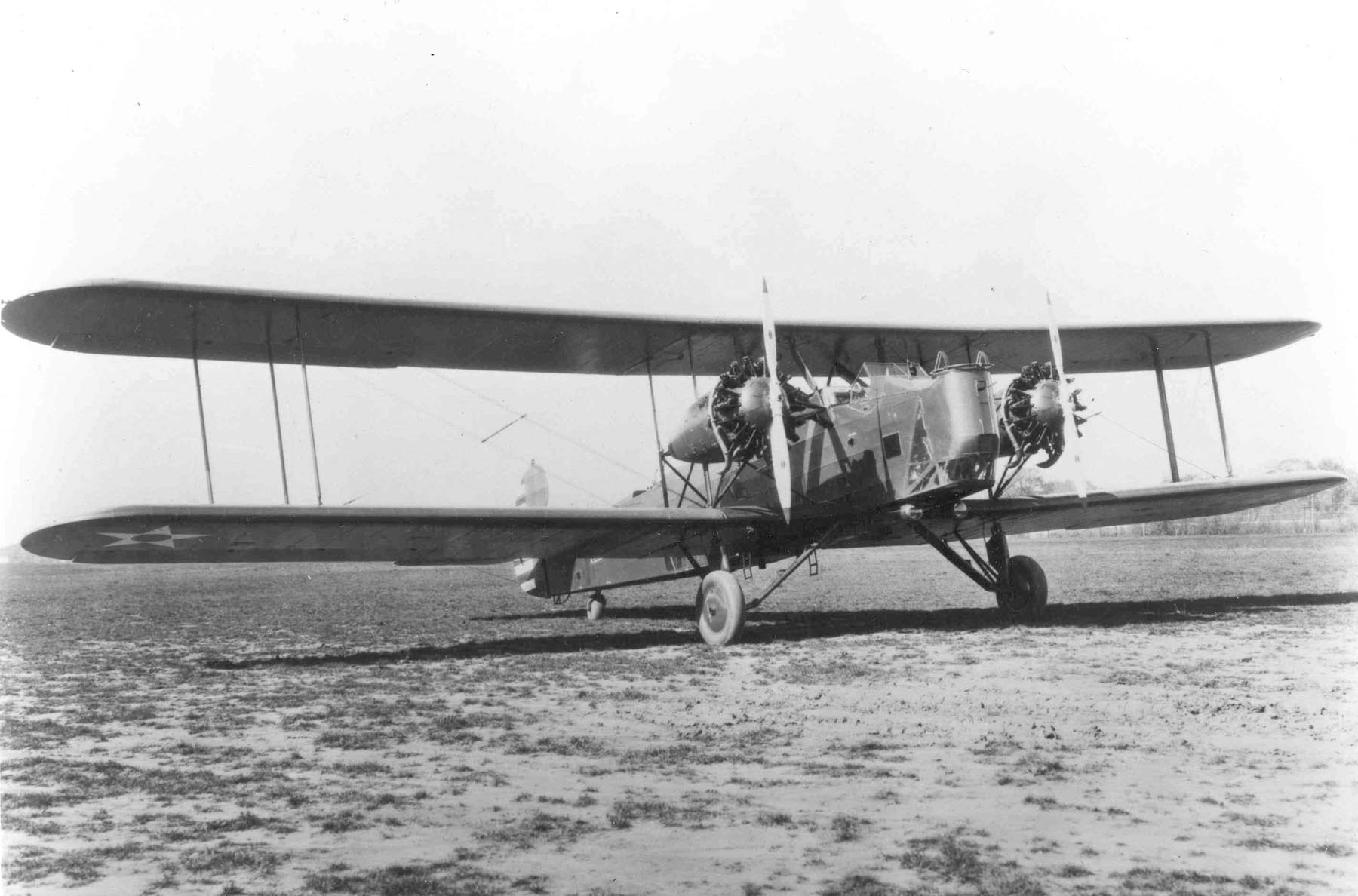 Keystone B-3A bomber, serial number 30-281, the first B-3A built; front right three-quarter view.